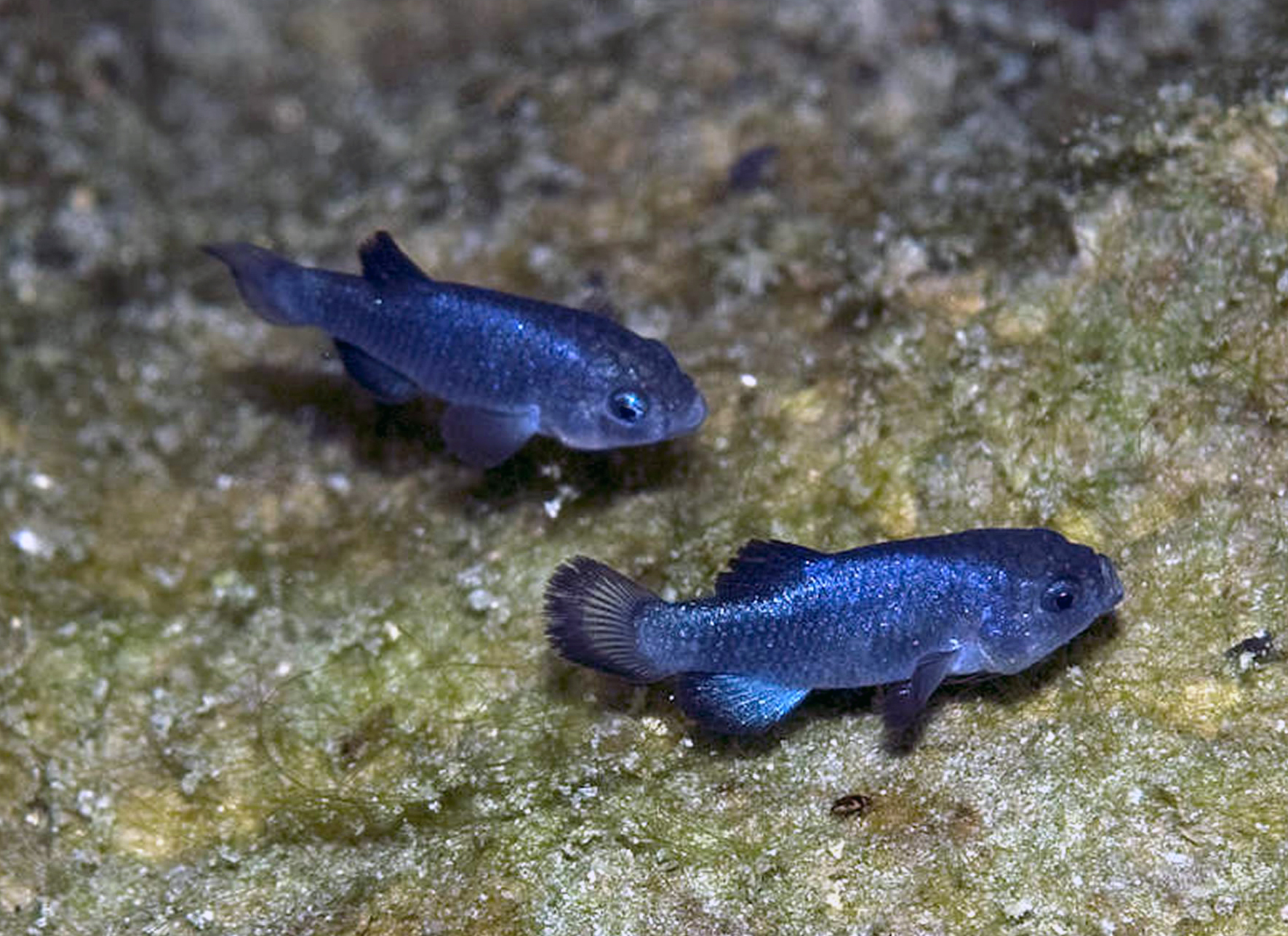 Two male specimen of the Devils Hole Pupfish (Cyprinodon diabolis) photographed in the Devil's Hole, Nevada